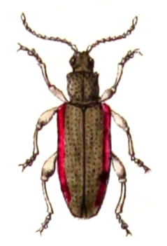 Donacia marginata, from Calwer's Käferbuch, Table 42, Picture 2. Taxonomy was updated to 2008, using mostly the sites Fauna Europaea and BioLib. Please contact Sarefo if the determination is wrong!